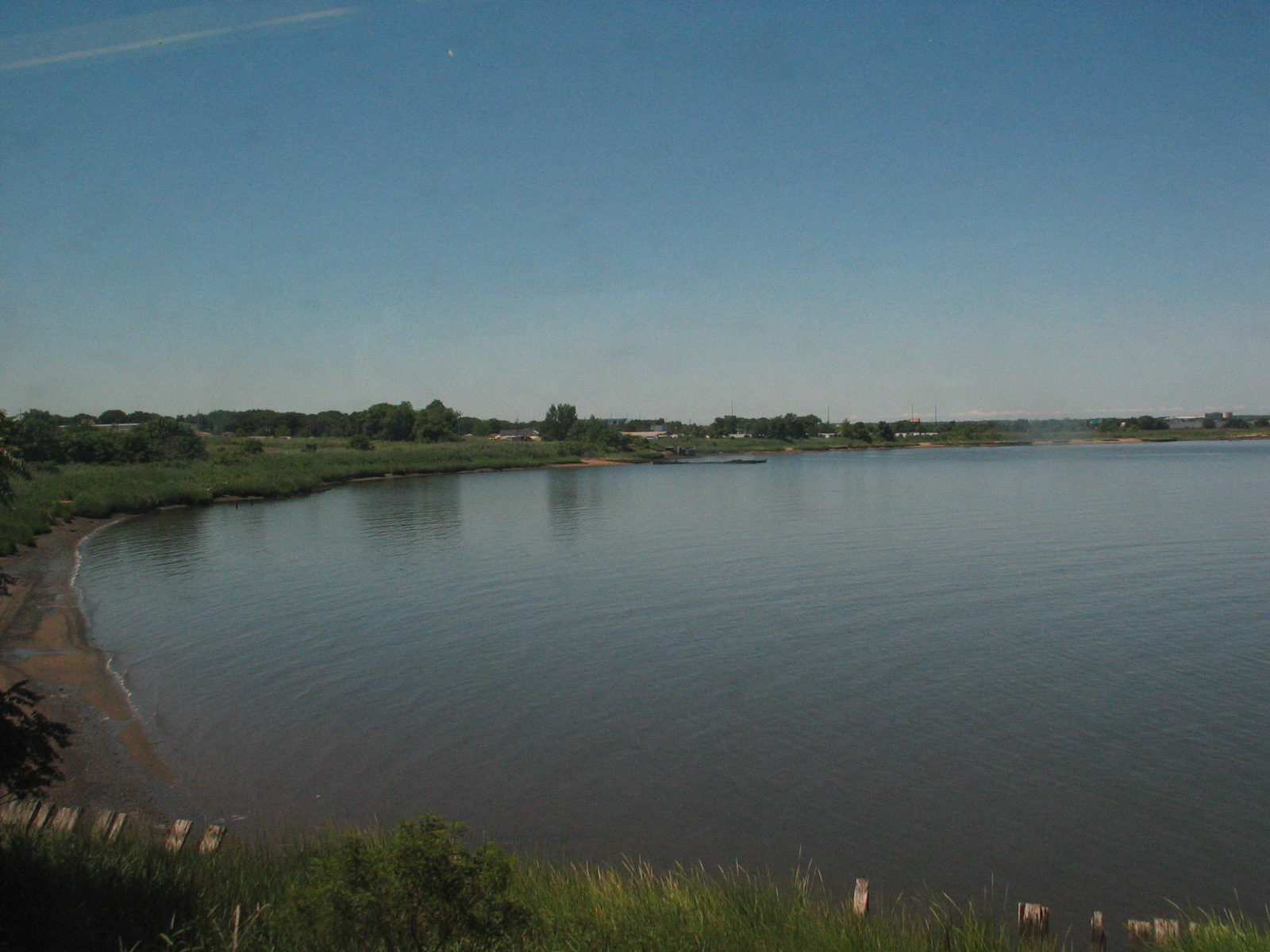 The sourth bank of the RAritan Bay